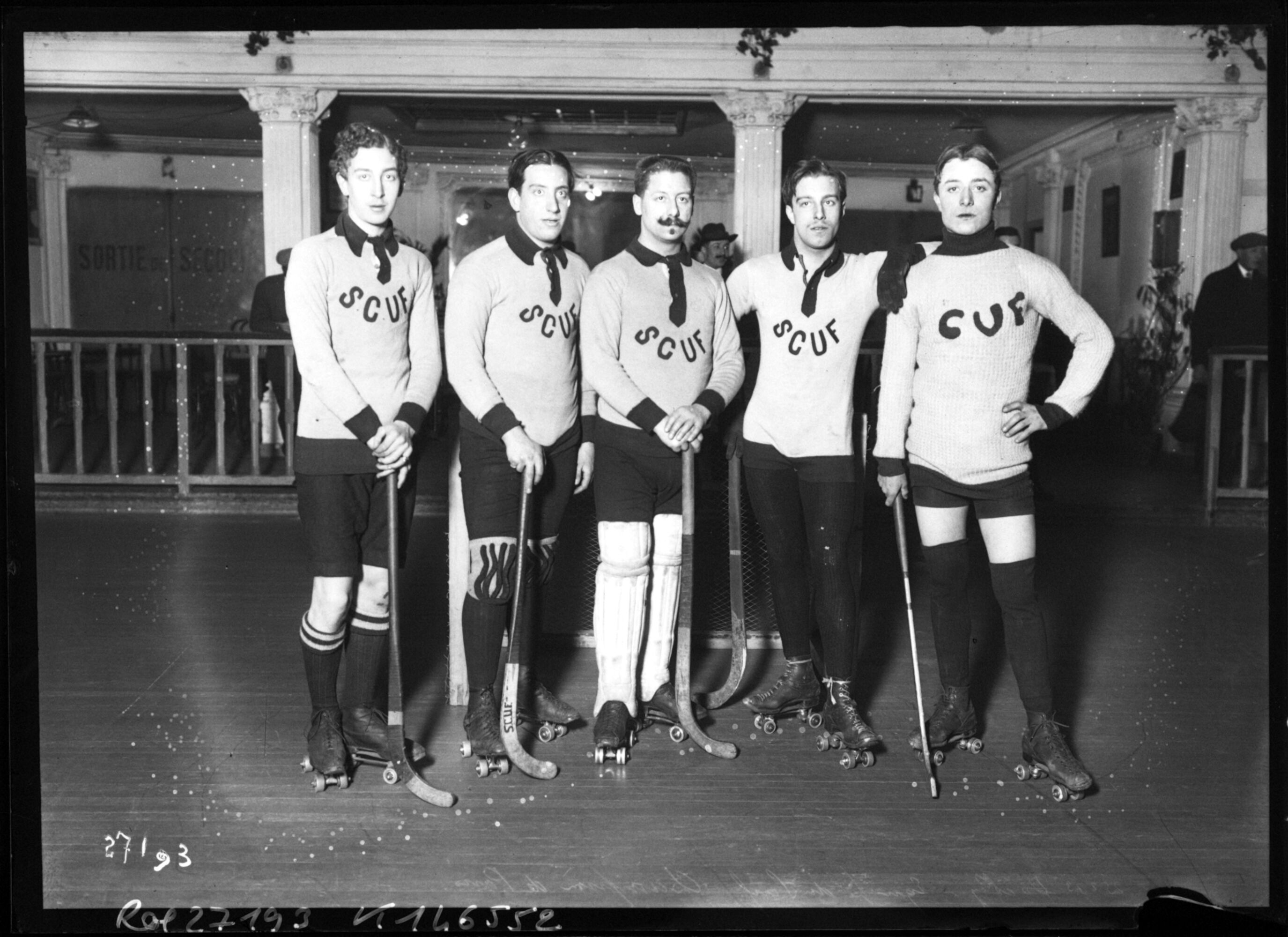 Photo de l'équipe championne de Paris prise le 25 février 1913